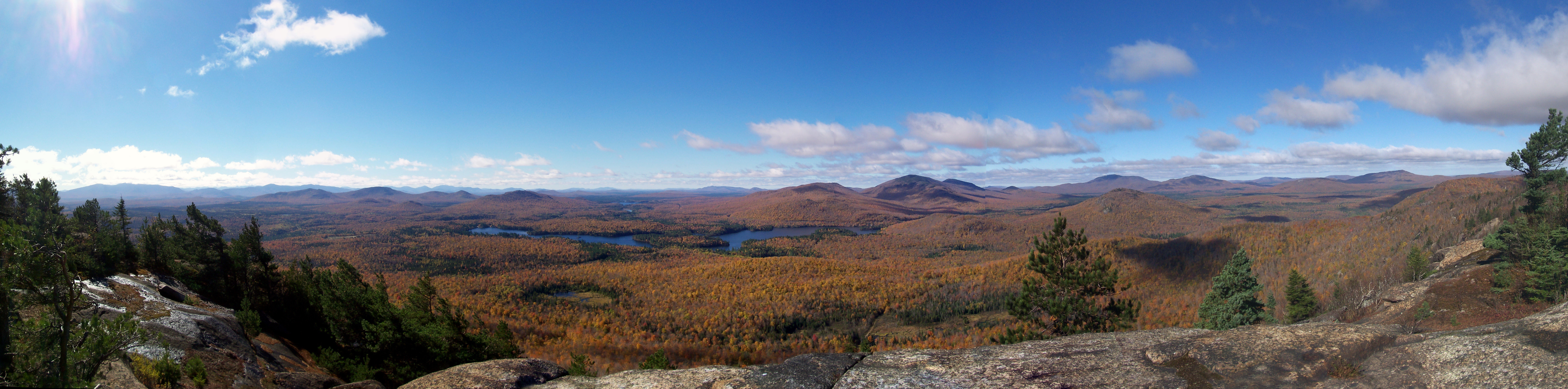 Panoramic view of Loon Lake, New York